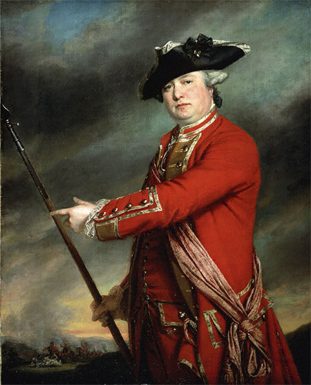 Lieutenant Colonel Francis Smith, leader of the British forces at the Battles of Lexington and Concord.